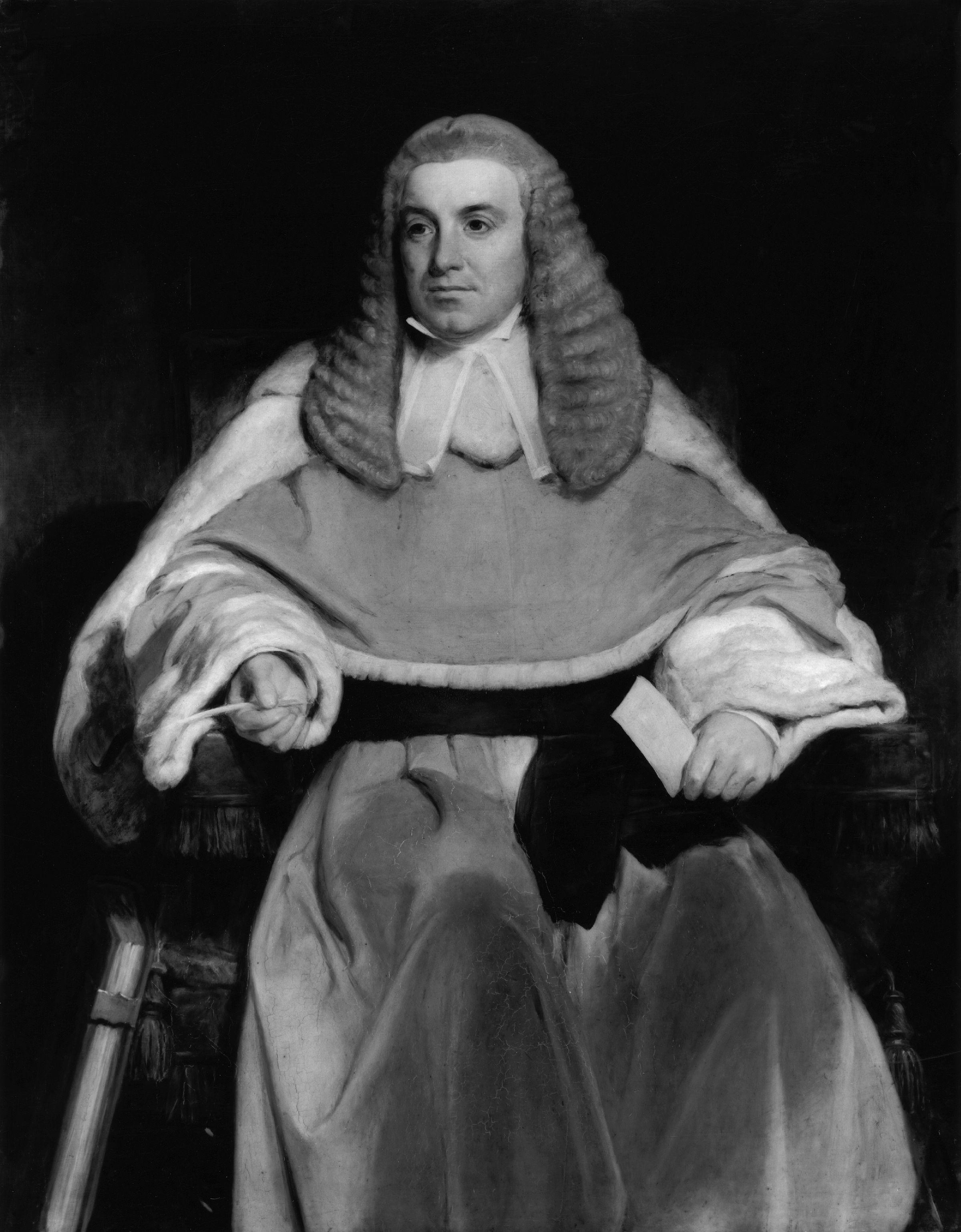 Sir Thomas Noon Talfourd, by Henry William Pickersgill (died 1875). All images in this batch have been confirmed as author died before 1939 according to the official death date listed by the NPG.